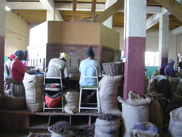 Nutmeg workers, Gouyave nutmeg factory, Gouyave, Grenada.